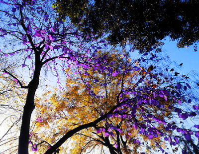 Tree of Photosynthesis 2006